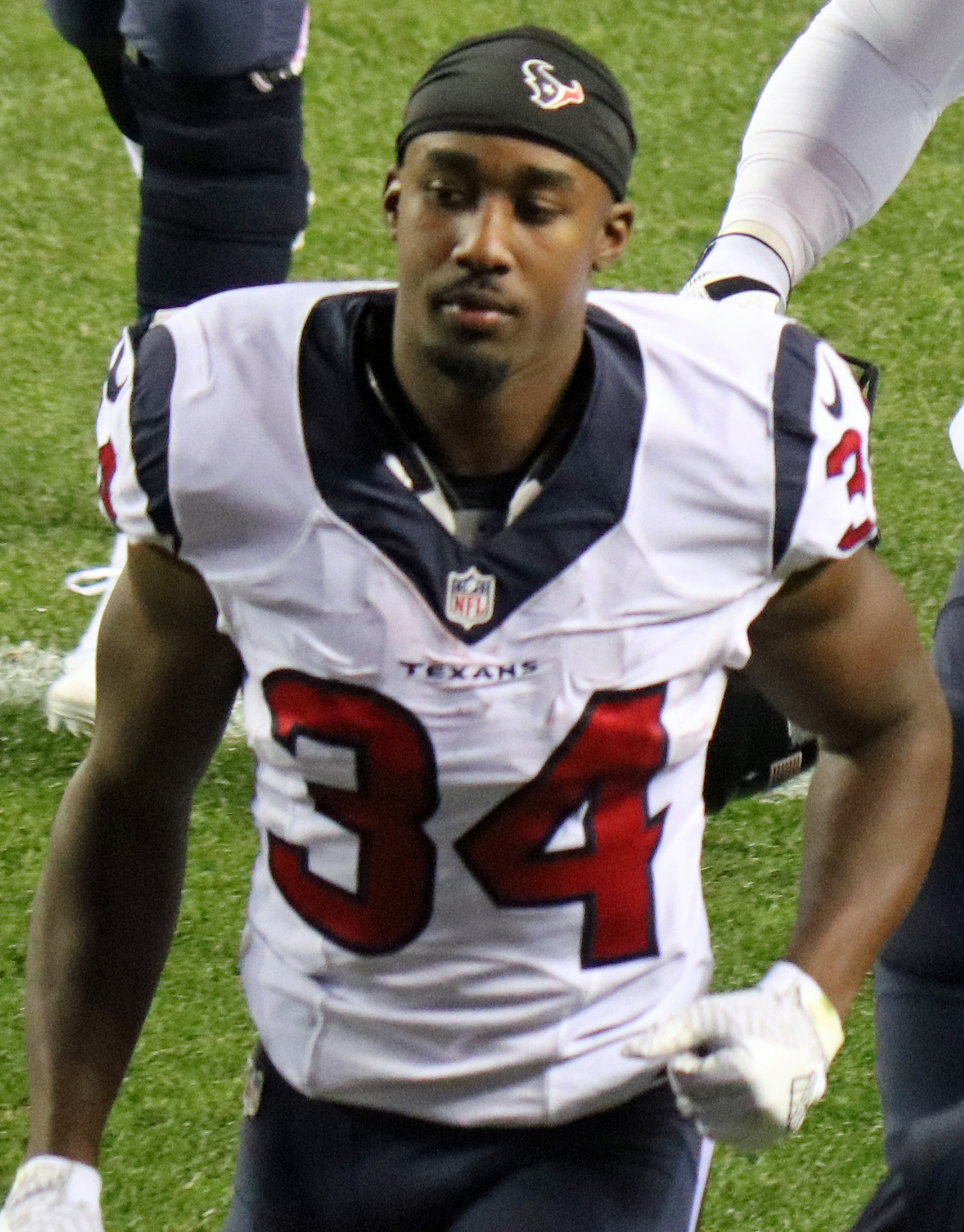 Tyler Ervin, a player on the National Football League.